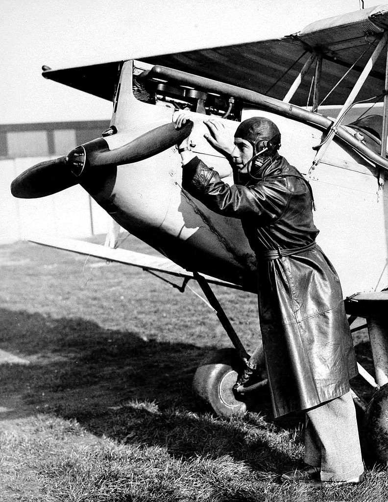 Sport, Golf, 1930, Henry Cotton, (1907-1987), The picture shows Great Britain's Henry Cotton dressed in early aviators outfit at Croydon Airport where he was learning to fly